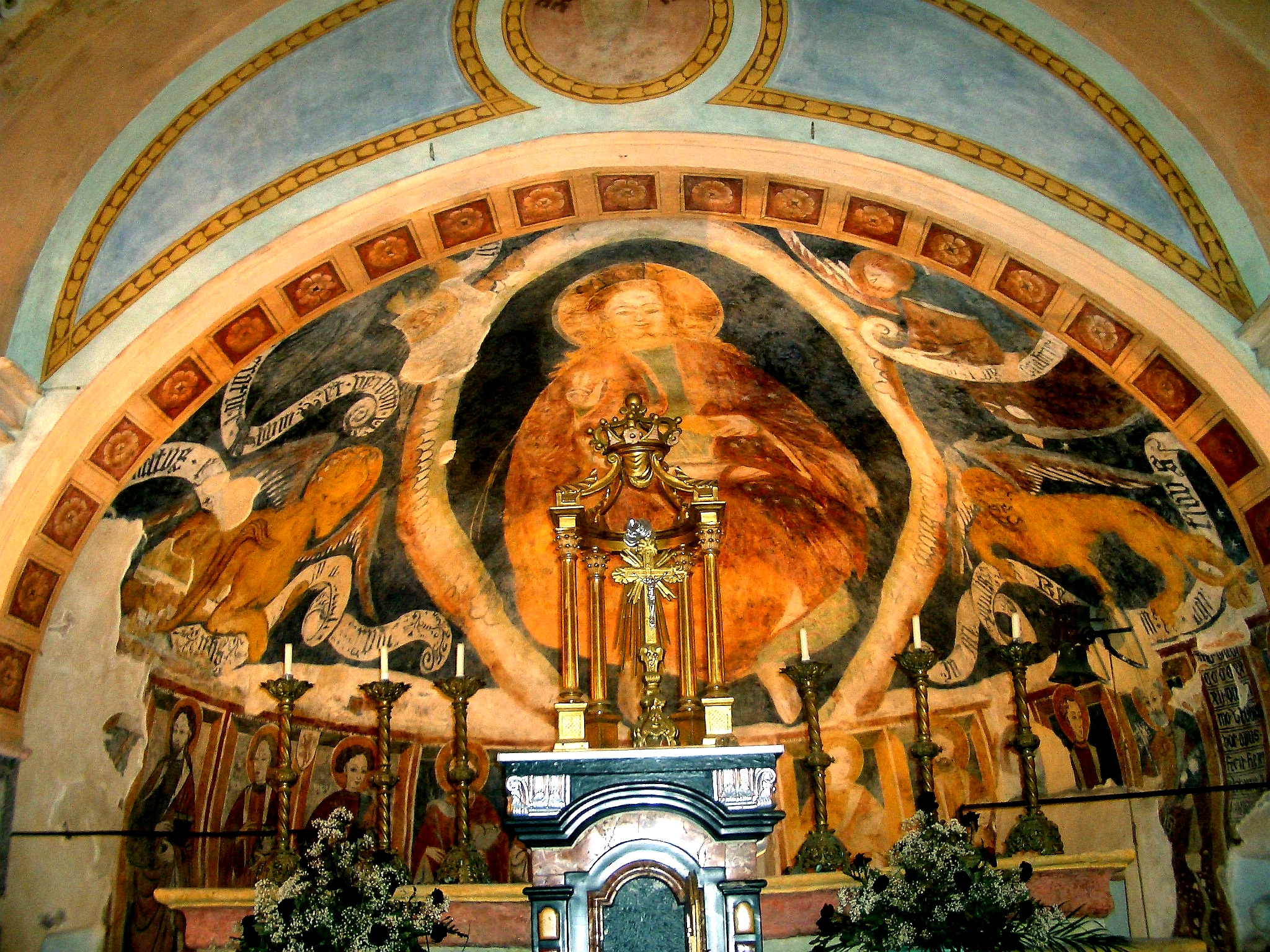 San Pietro Vecchio church , The altar and the Apse, Favria, Turin, Italy